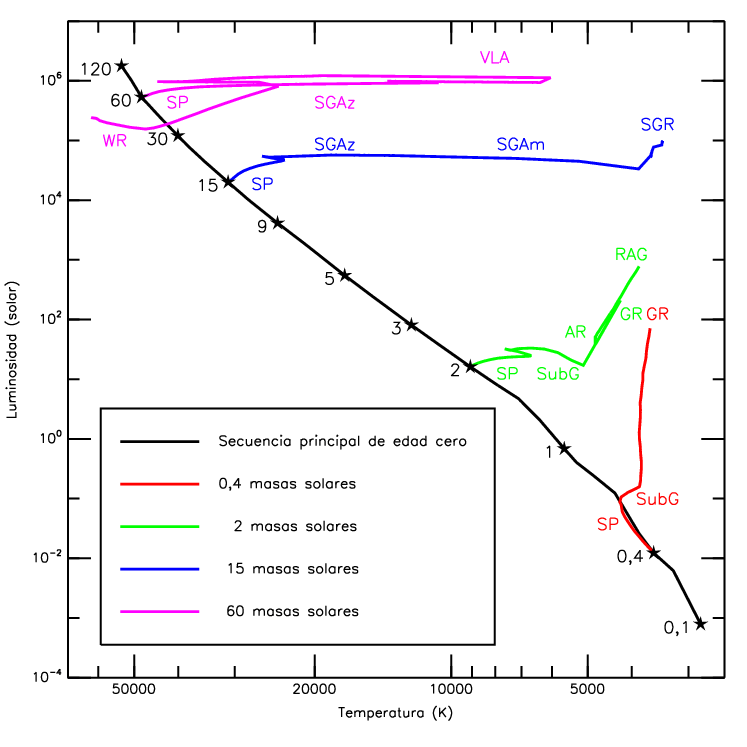 Sample stellar evolutionary tracks for single stars, zero initial rotational velocity, and solar metallicity